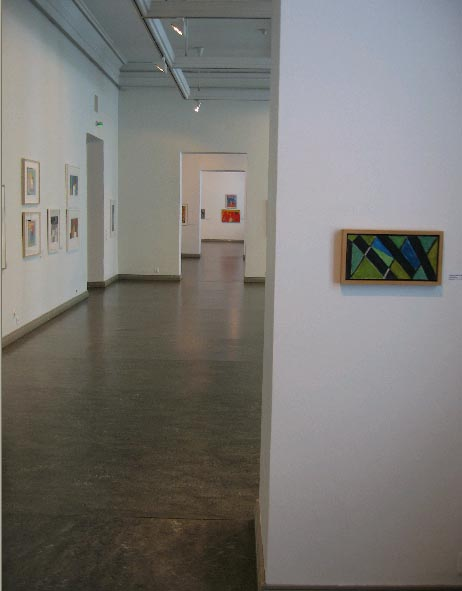 Joensuu Art Museum